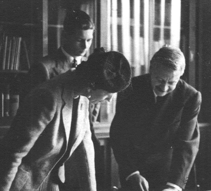 Romania's king Michael I and his mother, Helen of Greece and Denmark, visiting the University of Bucharest Anthropological Institute shortly after its inauguration. The Institute's founder, Francisc Rainer, is to the right of the photograph.